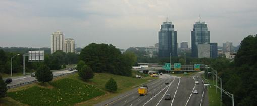 Sandy Springs, Georgia: Concourse Towers at right, better known as the King and Queen Tower due to the lighted crown on top of the building. Park Towers I & II at left.